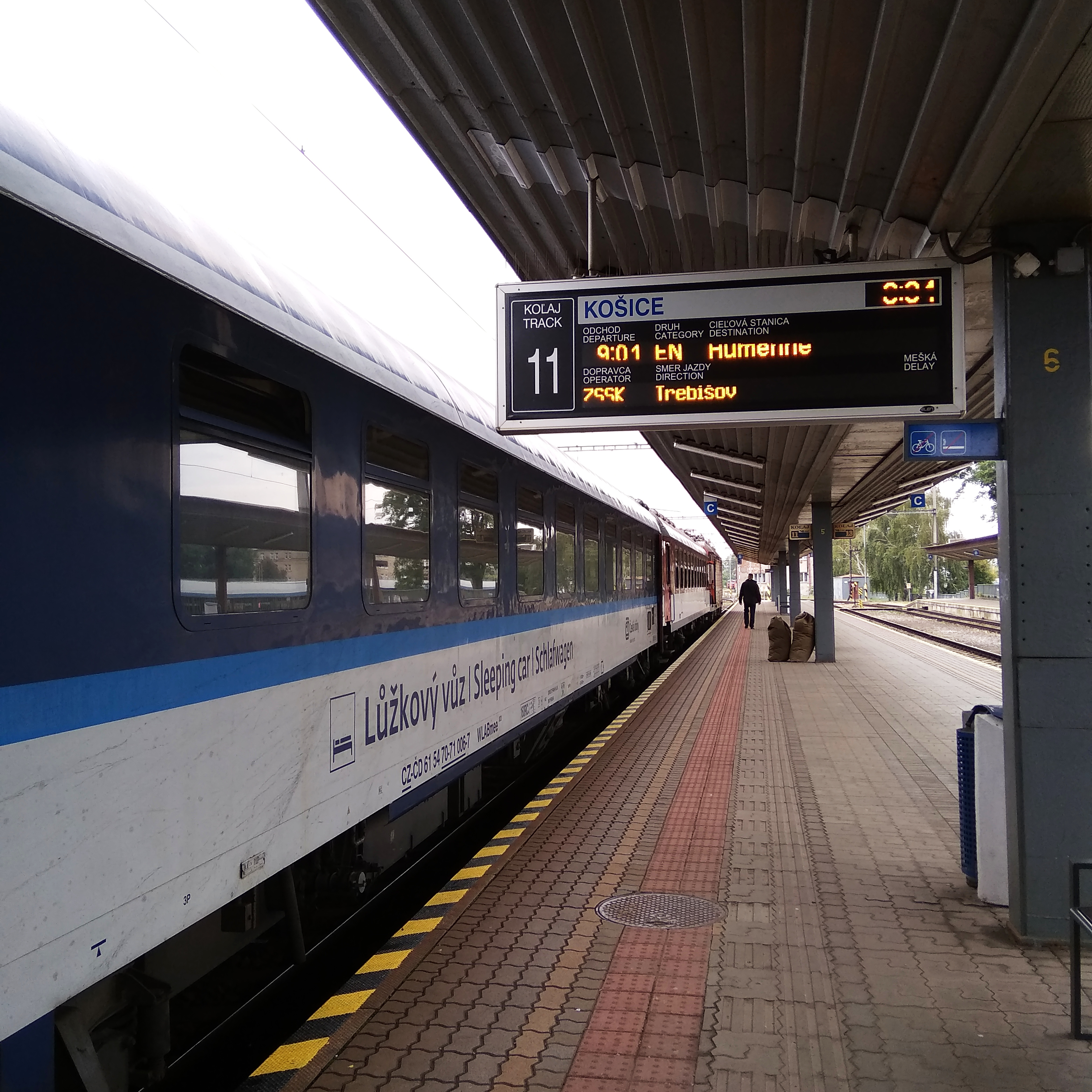 Košice Railway Station, Slovakia